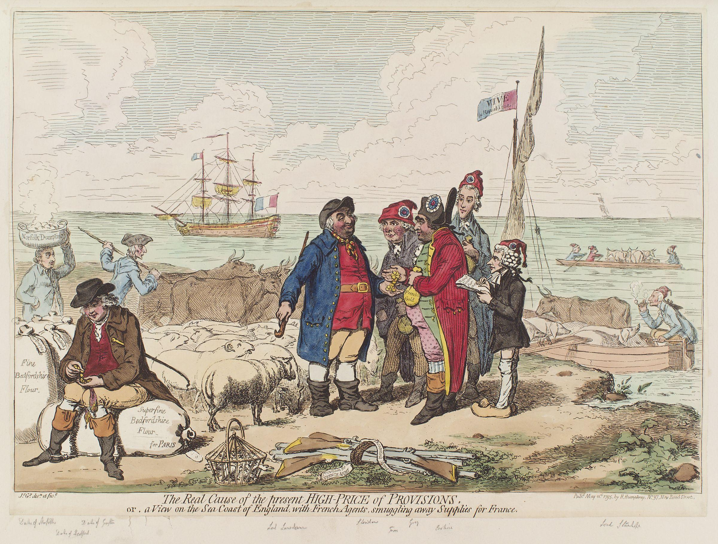 The real cause of the present high price of provisions, or, a view on the sea coast of England, with French agents, smuggling away supplies for France, by James Gillray (died 1815), published 1795. All images in this batch have been confirmed as author died before 1939 according to the official death date listed by the NPG.